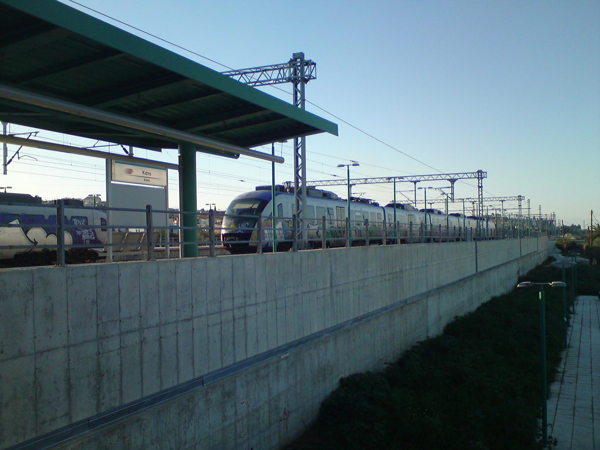 View of a Siemens Desiro (OSE class 660) train at Kiato suburban railway station in Greece